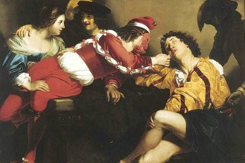 Waking the sleeping youth with a burning wick.